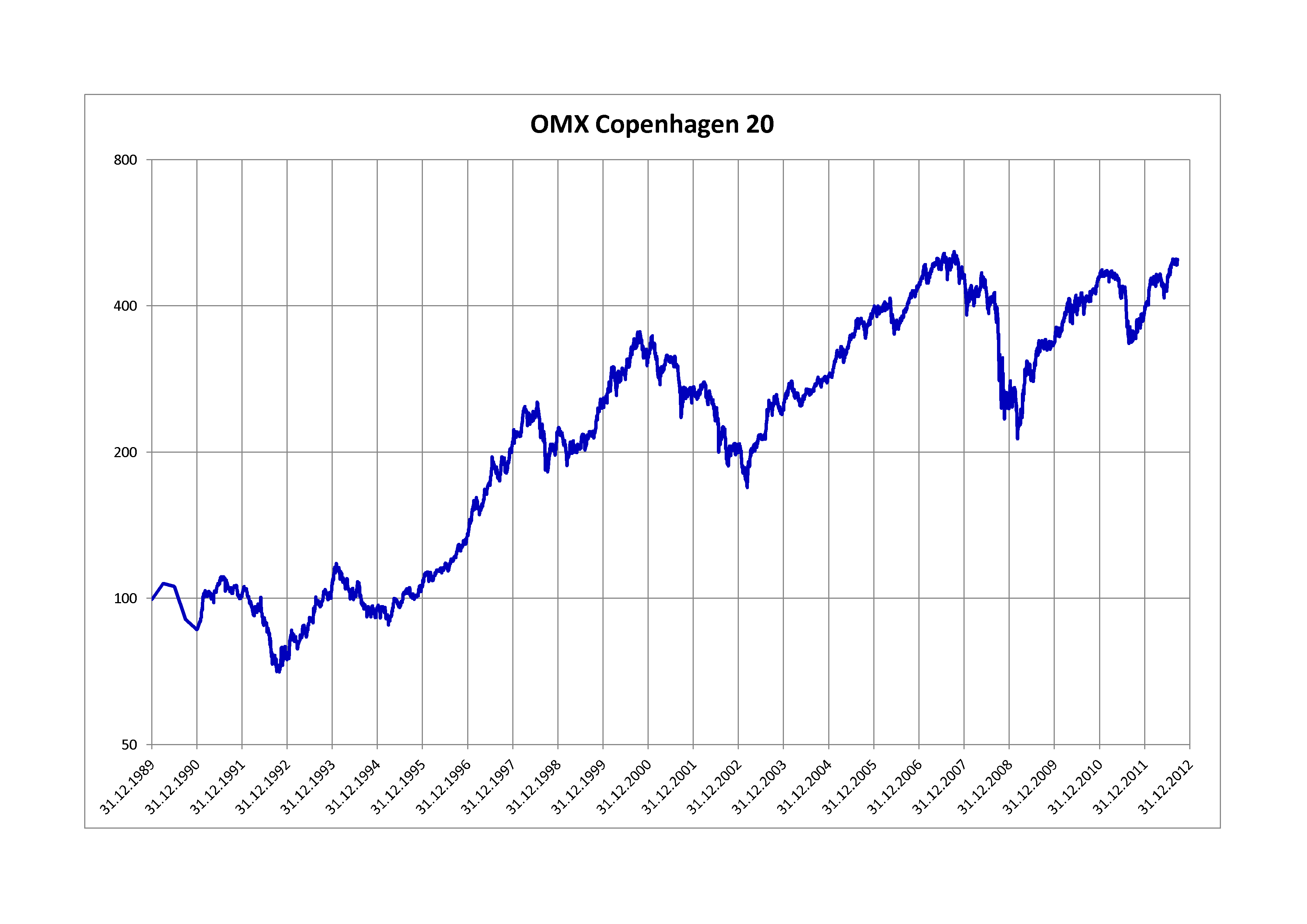 OMX Copenhagen 20 from December 1989 to September 2012 (daily closings)